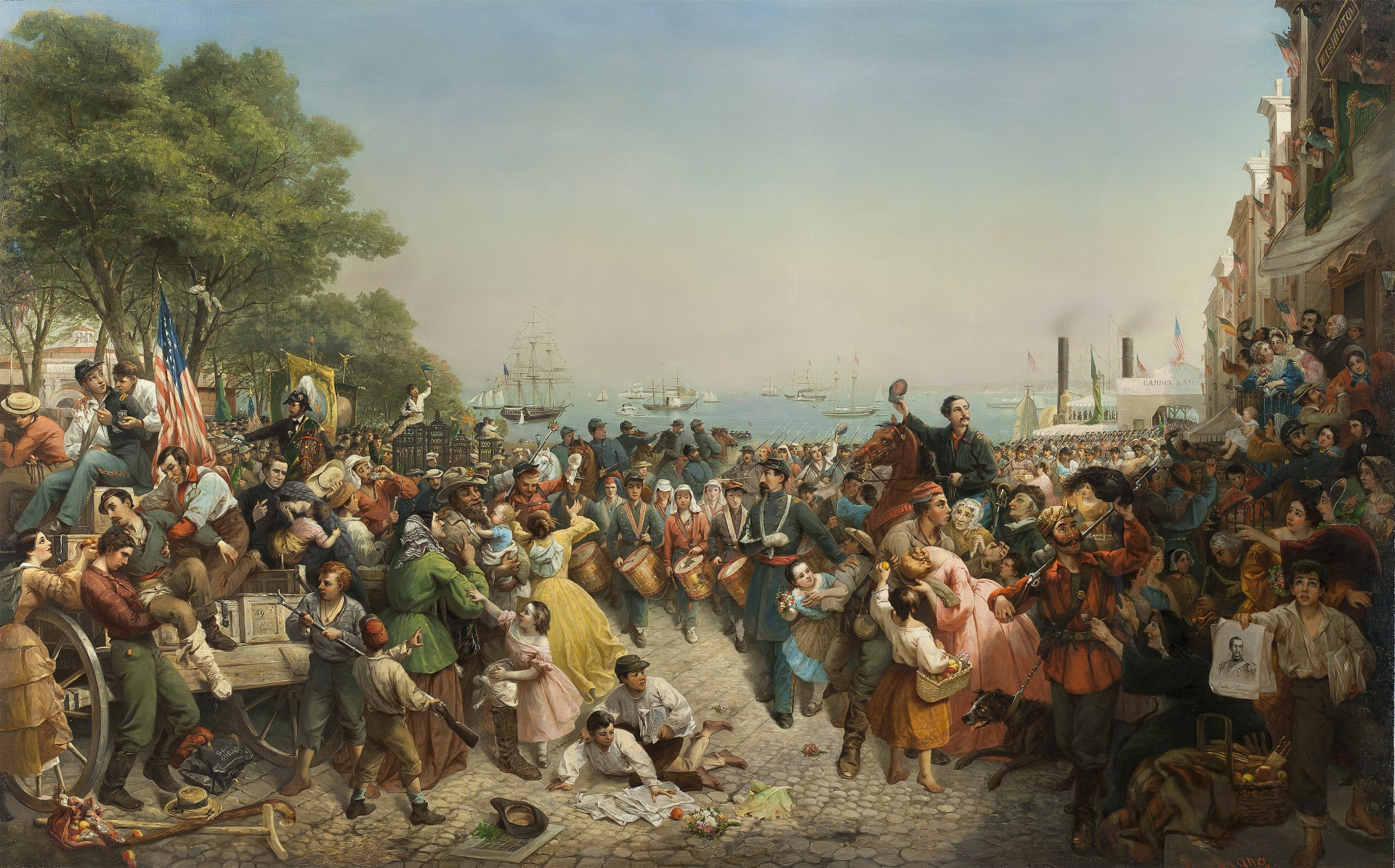 July 27, 1861: New York’s 69th (Irish) Regiment return from 1st Battle of Bull Run.